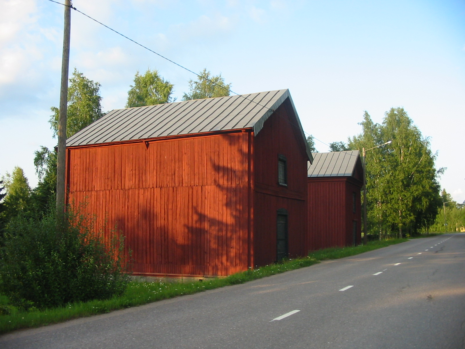 Parish granaries of Somero, finland, built in 1758 and 1828.